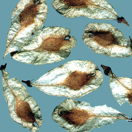 Ulmus chenmoui winged samara